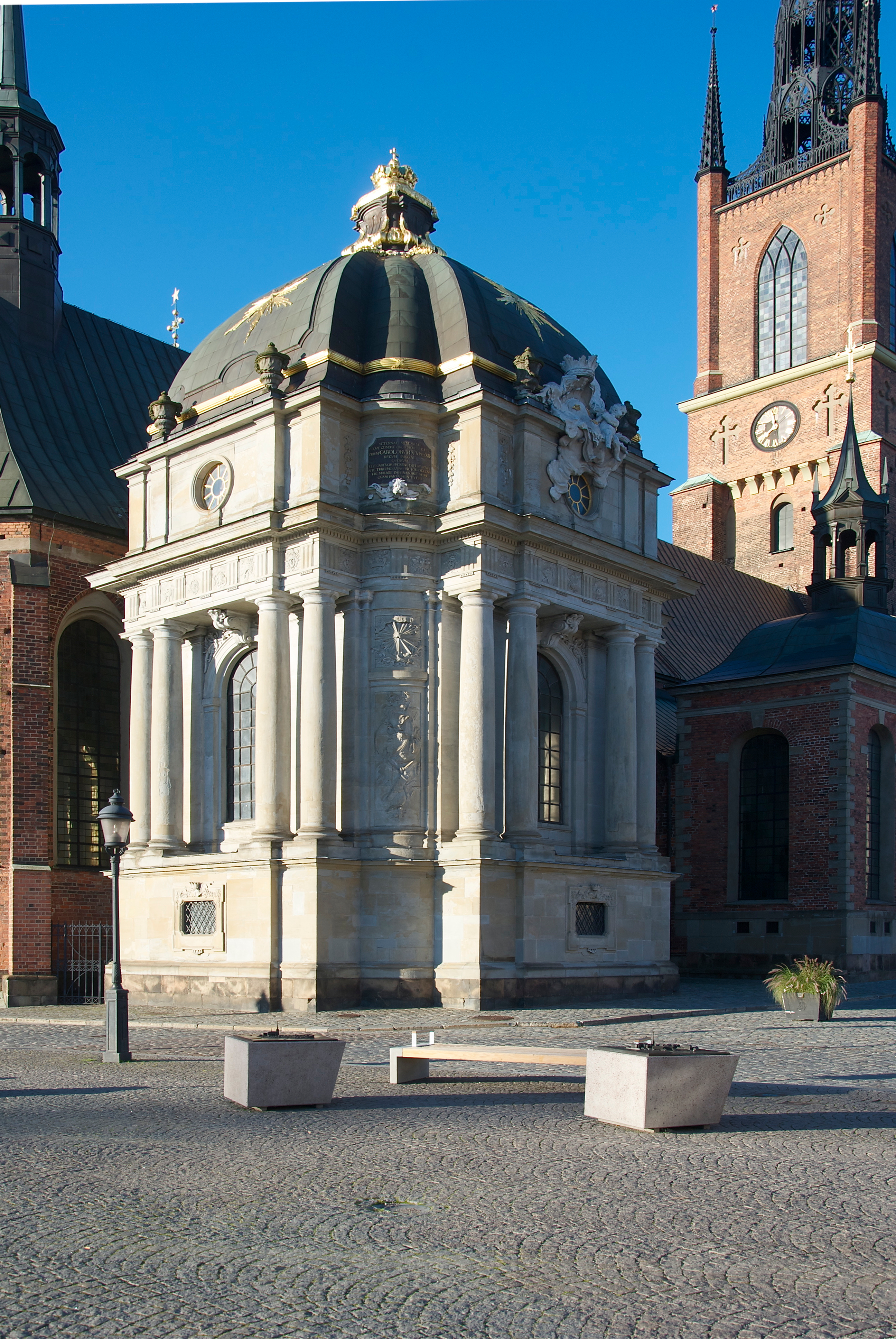 Karolinska gravkoret, Riddarholmskyrkan